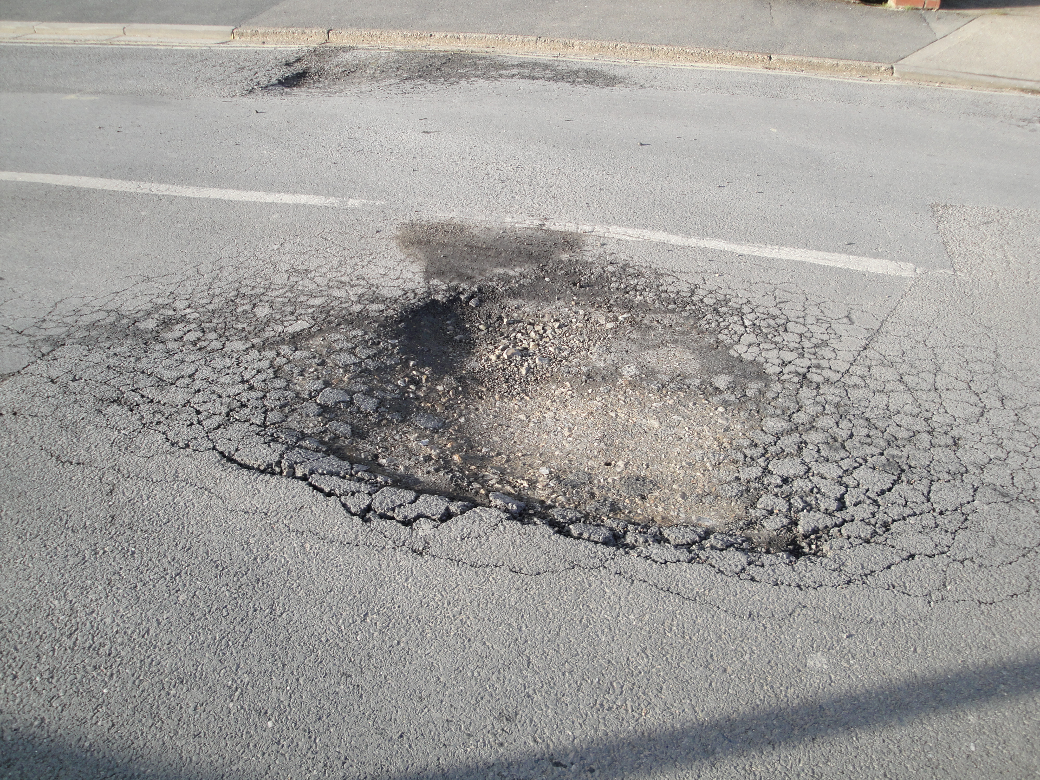 A large pothole in Whitepit Lane, Newport, Isle of Wight seen in February 2010. It was caused partly due to very cold weather during January 2010 causing water to freeze and cracks to form in the road surface. The damage has now been repaired.